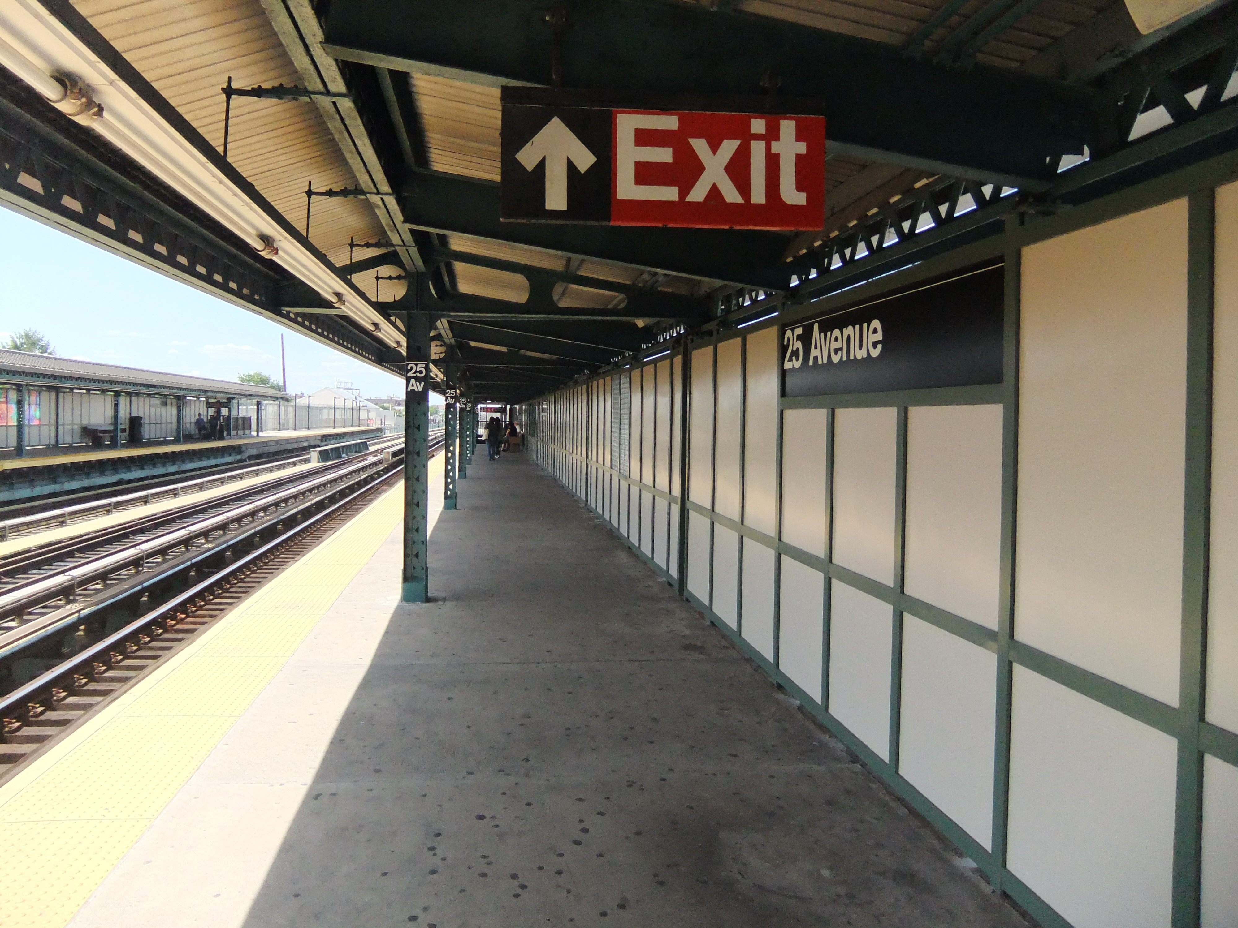 Manhattan bound platform at the 25th Avenue station.